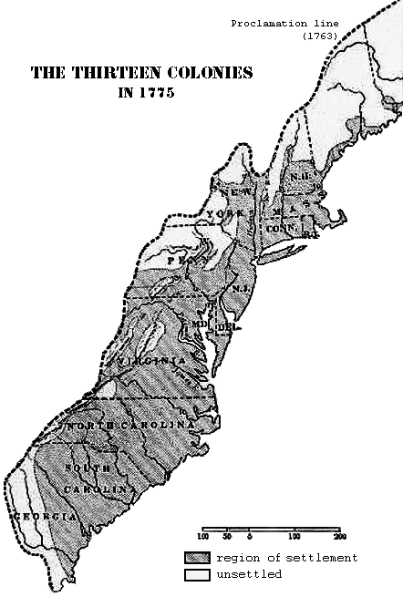 13 colonies in 1775